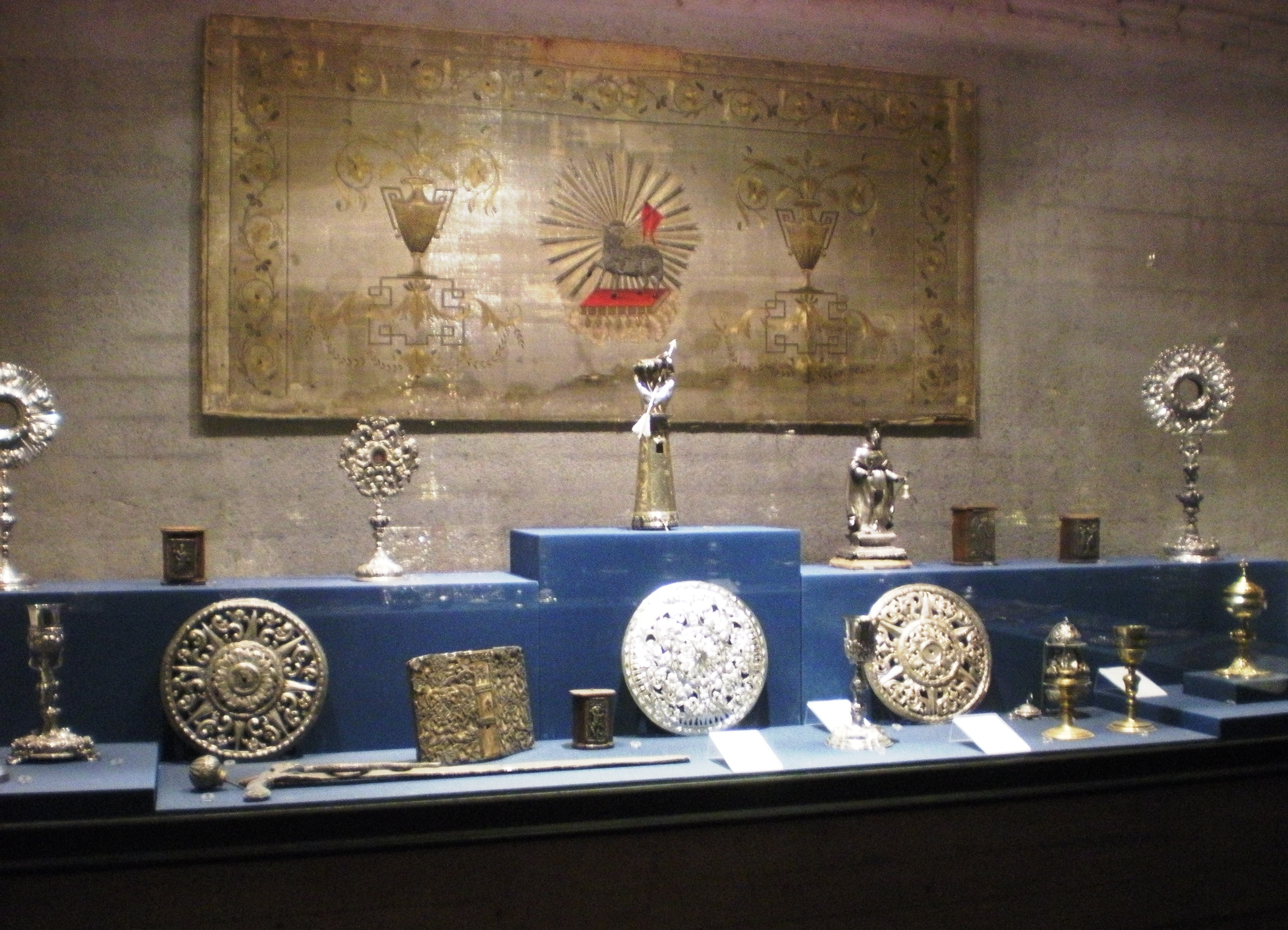 St. Mary of the Star Museum